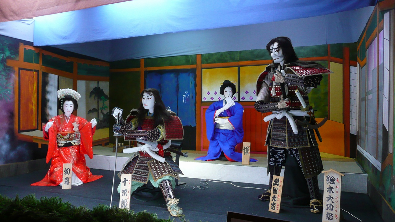 Kabuki Doll (Muikamachi, Honjo, Kunitomi Town, Miyazaki, Japan)